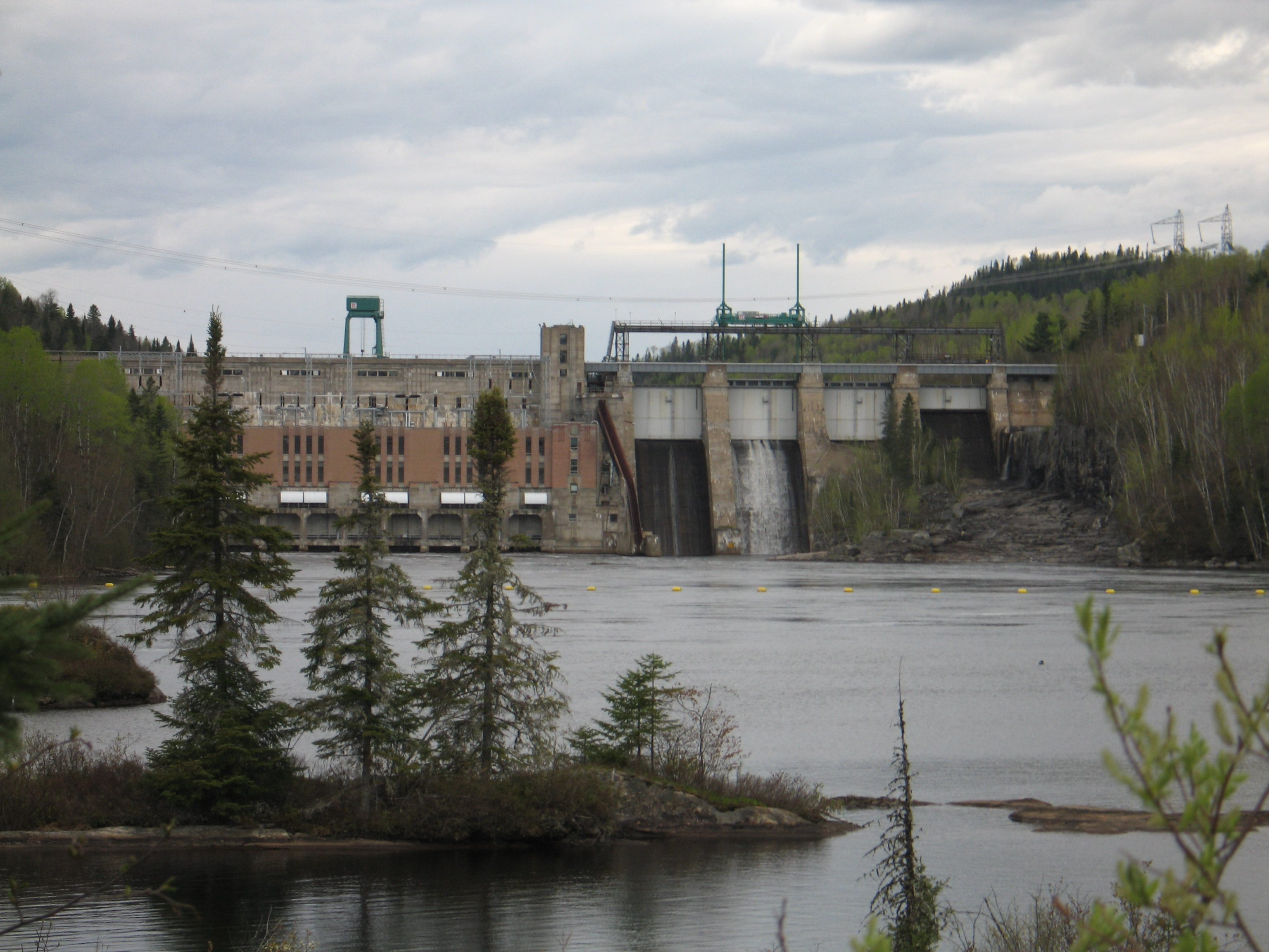 Hydro-Québec's Rapide-Blanc generating station, north of La Tuque, Quebec. This 204-MW power station has been inaugurated in 1934.